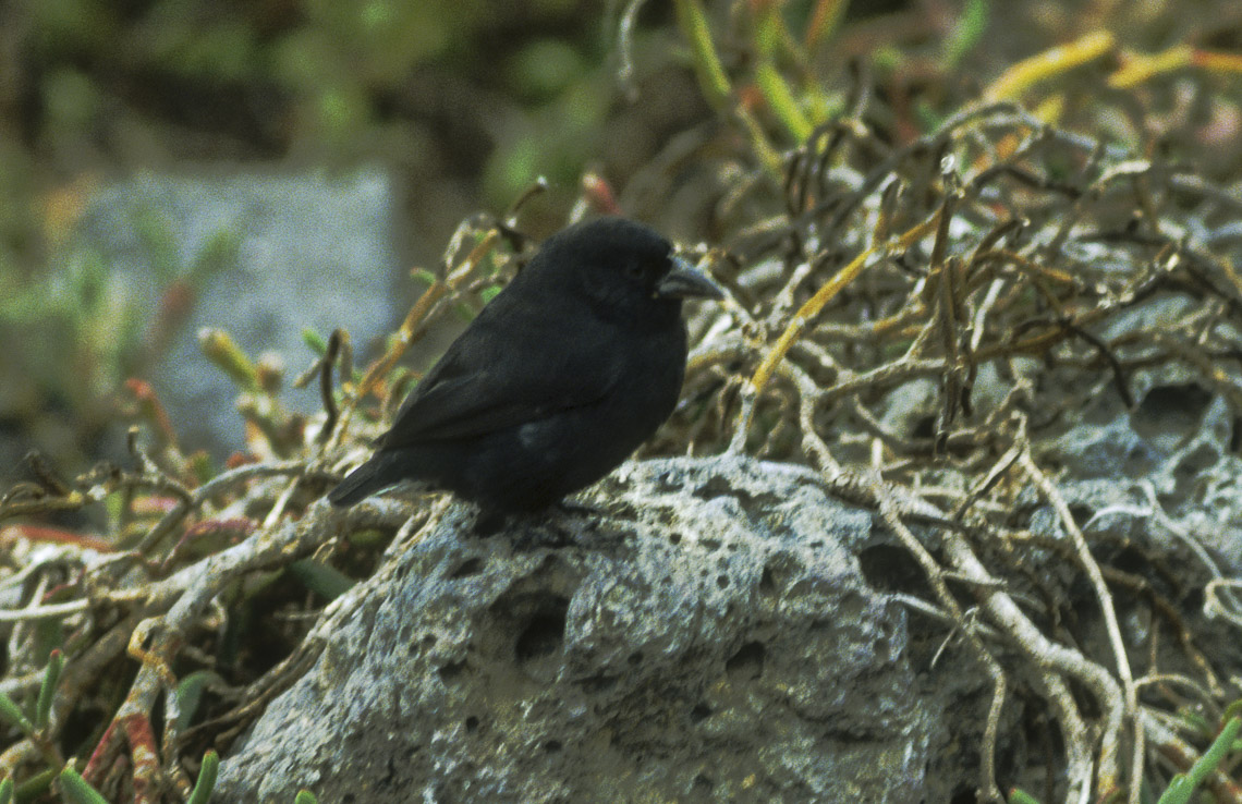 Small Ground Finch - Galapagos Image9